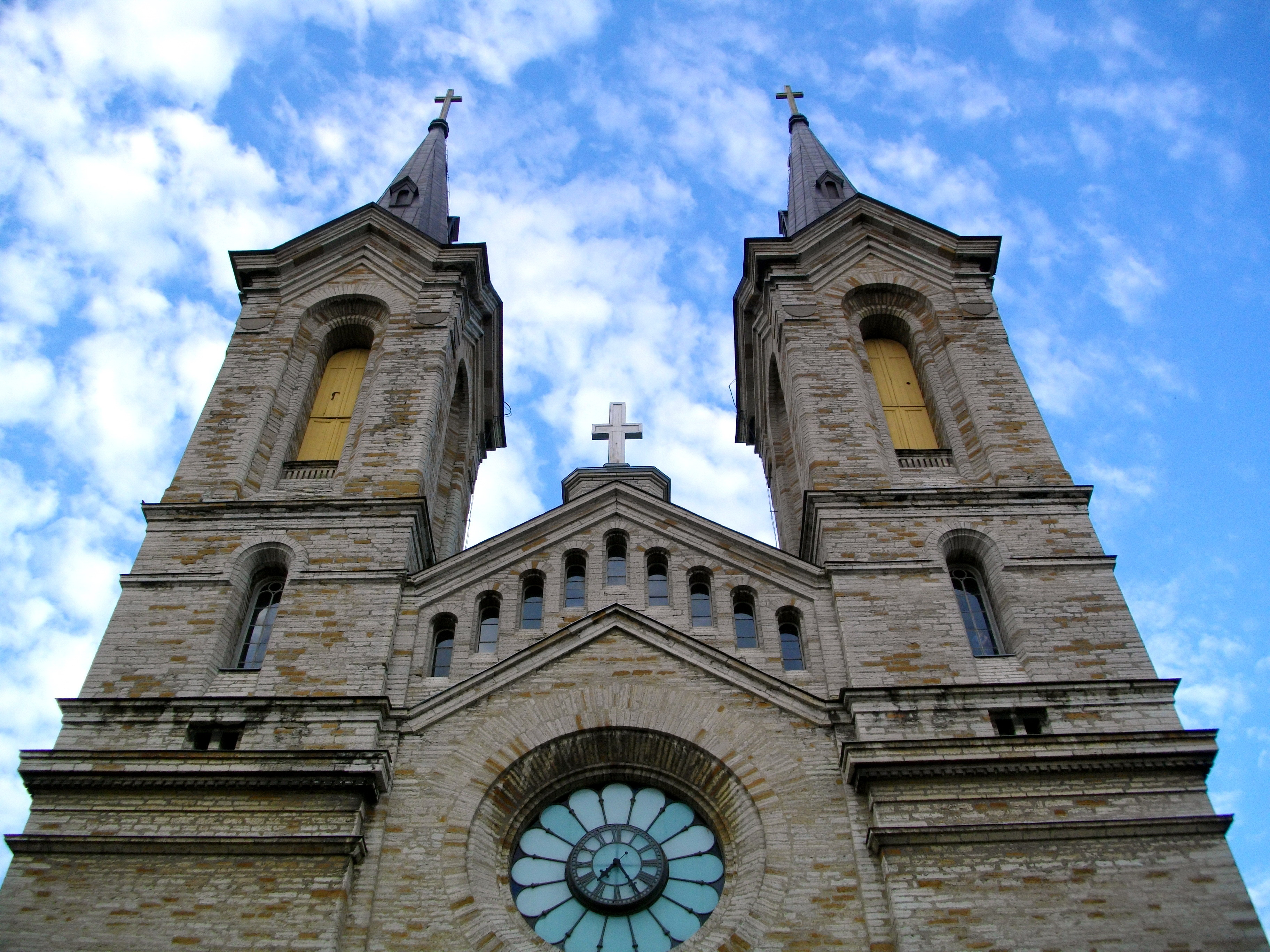 Kaarli church in Tallinn, Estonia